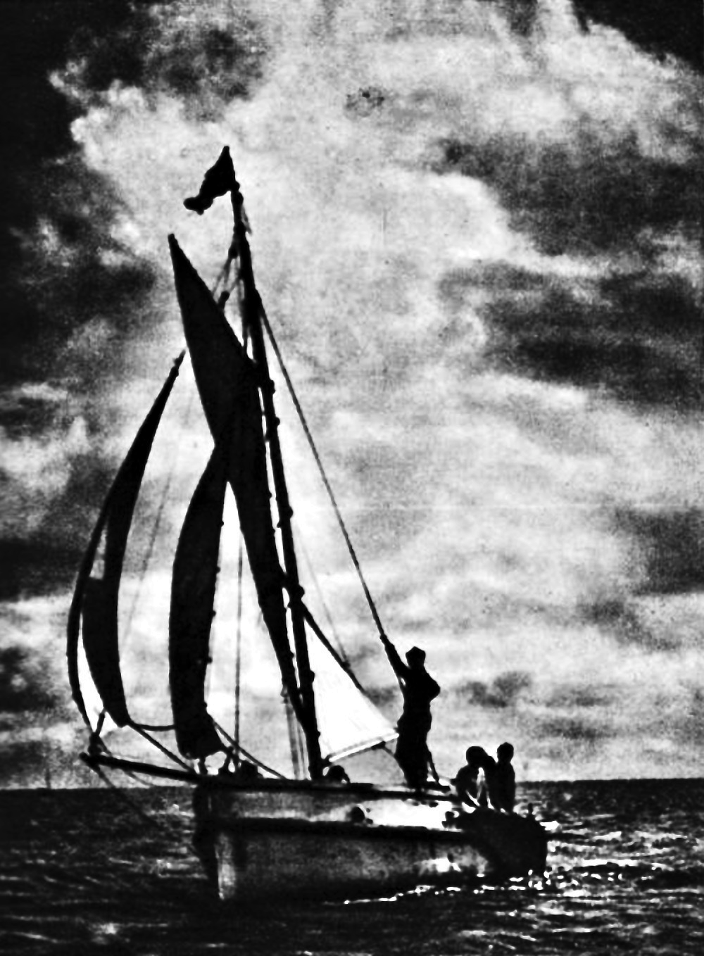 Sailing Dinghy of former Schule am Meer (1925–1934) on Juist Island, North Sea, East Frisia, Prussia. The progressive boarding school owned three sailing dinghies of different sizes. One of it was equipped with an auxiliary engine.